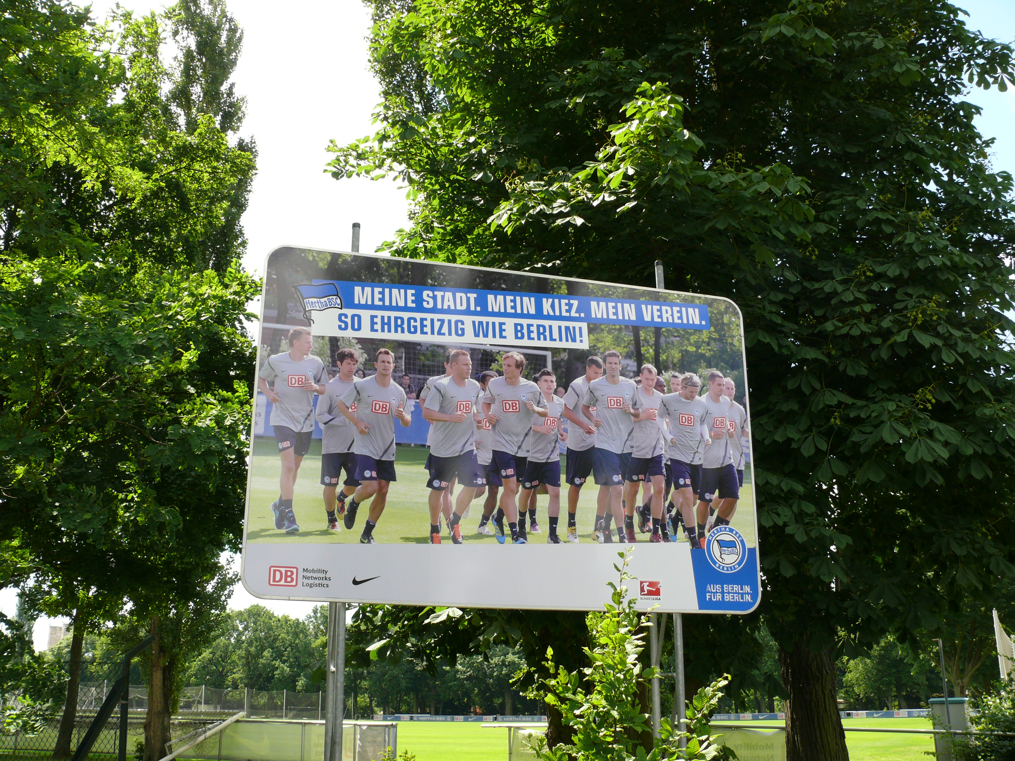 Berlin-Westend Sportforum Hertha